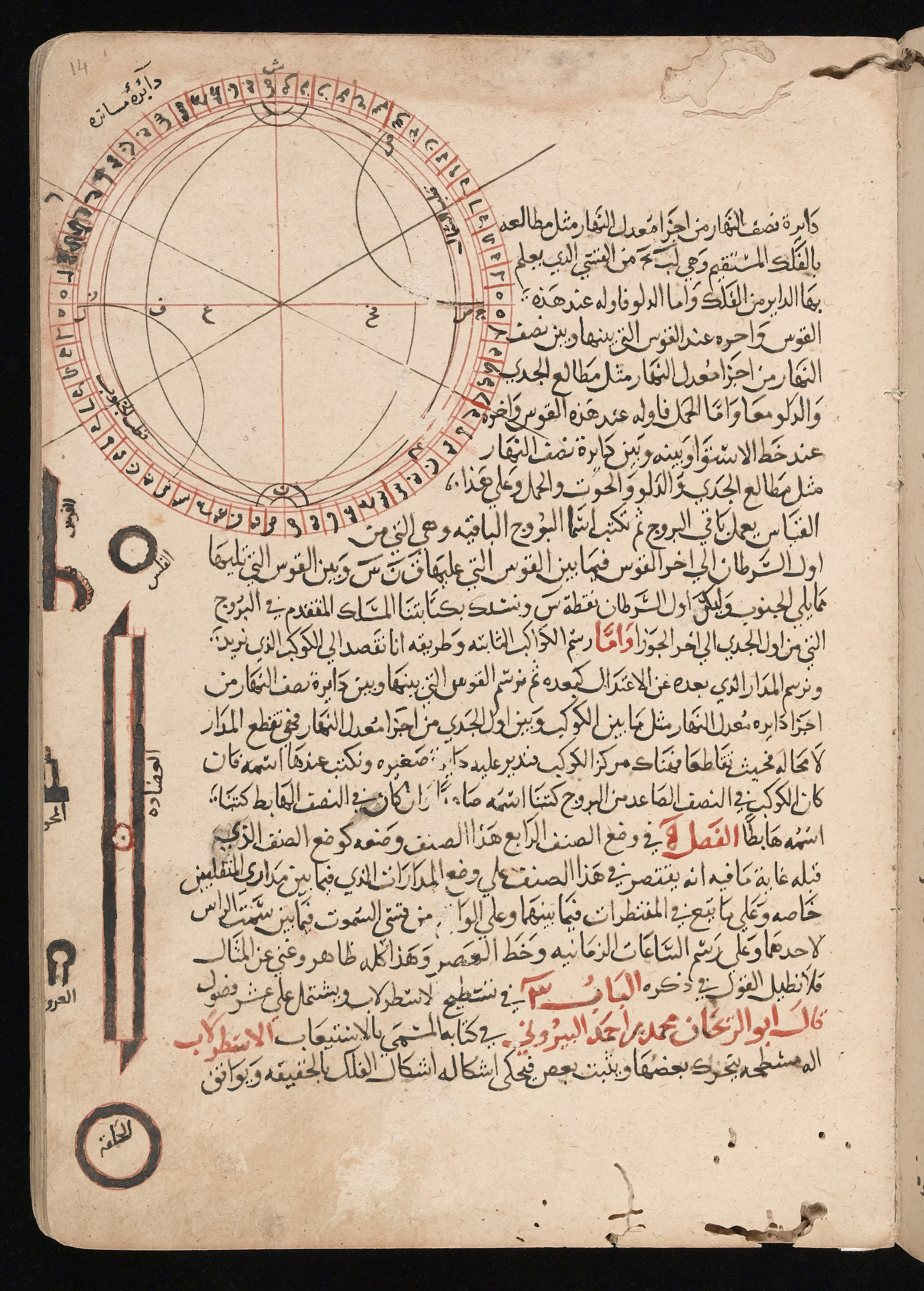 A drawing of an astrolabe Wellcome Images Keywords: Instruments; Astronomy; Abu 'Ali al-Hasan b. Uthman al-Marrakushi